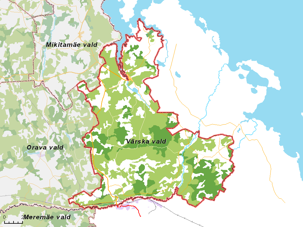 Map of municipality in Estonia